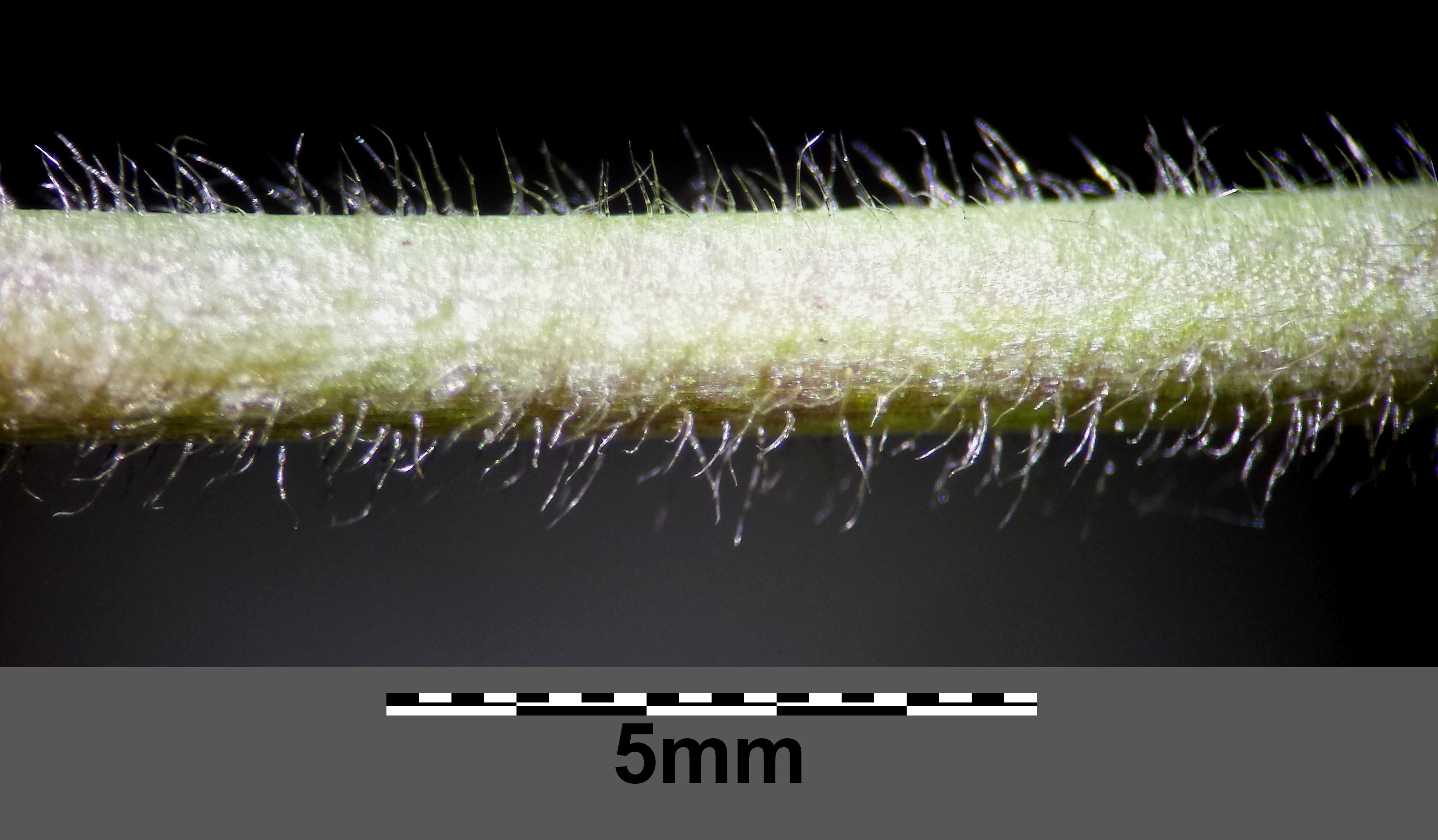 Densely pubescent stipe Taxonym: Cerastium holosteoides ss Fischer et al. EfÖLS 2008 ISBN 978-3-85474-187-9 Location: near Niederhollabrunn, district Korneuburg, Lower Austria - ca. 350 m a.s.l. Habitat: wine yard